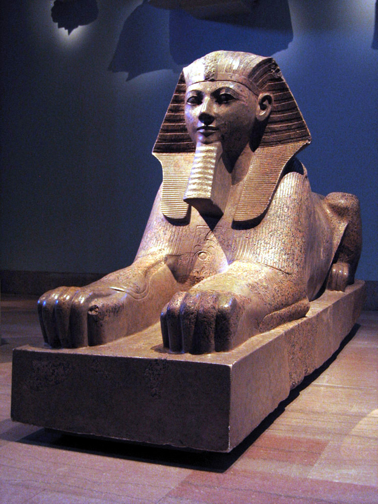 Sphinx of Hatshepshut, Eighteenth dynasty of Egypt, c. 1503-1482 B.C., found at Deir el-Bahri, Thebes. Red granite sculpture at the Metropolitan Museum of Art, New York City. This statue is one of six that were likely placed along the processional way into Hatshepsut's temple on the lower terrace. This statue's inscription reads "The King of Upper and Lower Egypt, Maatkara, beloved of Amun who resides in Djeser-Djeseru and given life forever. The statue is one of several in the Museum's collection that it invites the visually impaired (though not others) to touch.